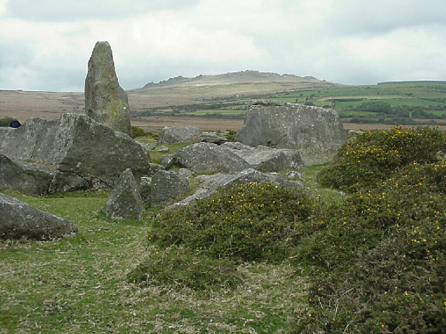 Preseli. The standing stones are memorials. I believe one is to Waldo Williams the Welsh poet. In the distance is Mynydd Preseli from where they took the bluestones for Stonehenge.